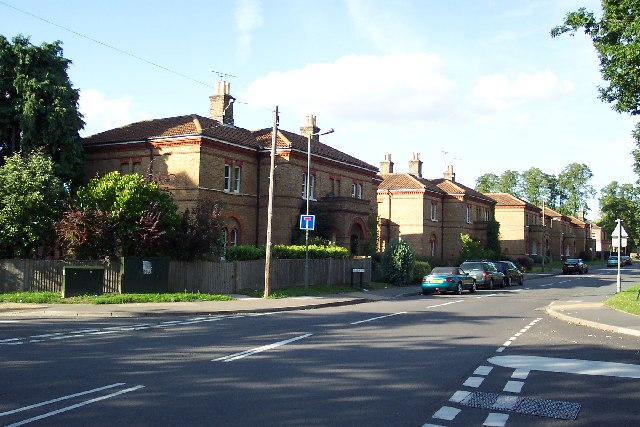 Inkerman Barracks. A couple of rows of Victorian houses are all that remain of the Inkerman Barracks. Built as a prison for infirm convicts in 1860, the buildings were taken over by the army in 1895 and renamed the Inkerman Barracks after the Crimean War battle. The main part of the barracks has ben demolished and replaced by modern housing.